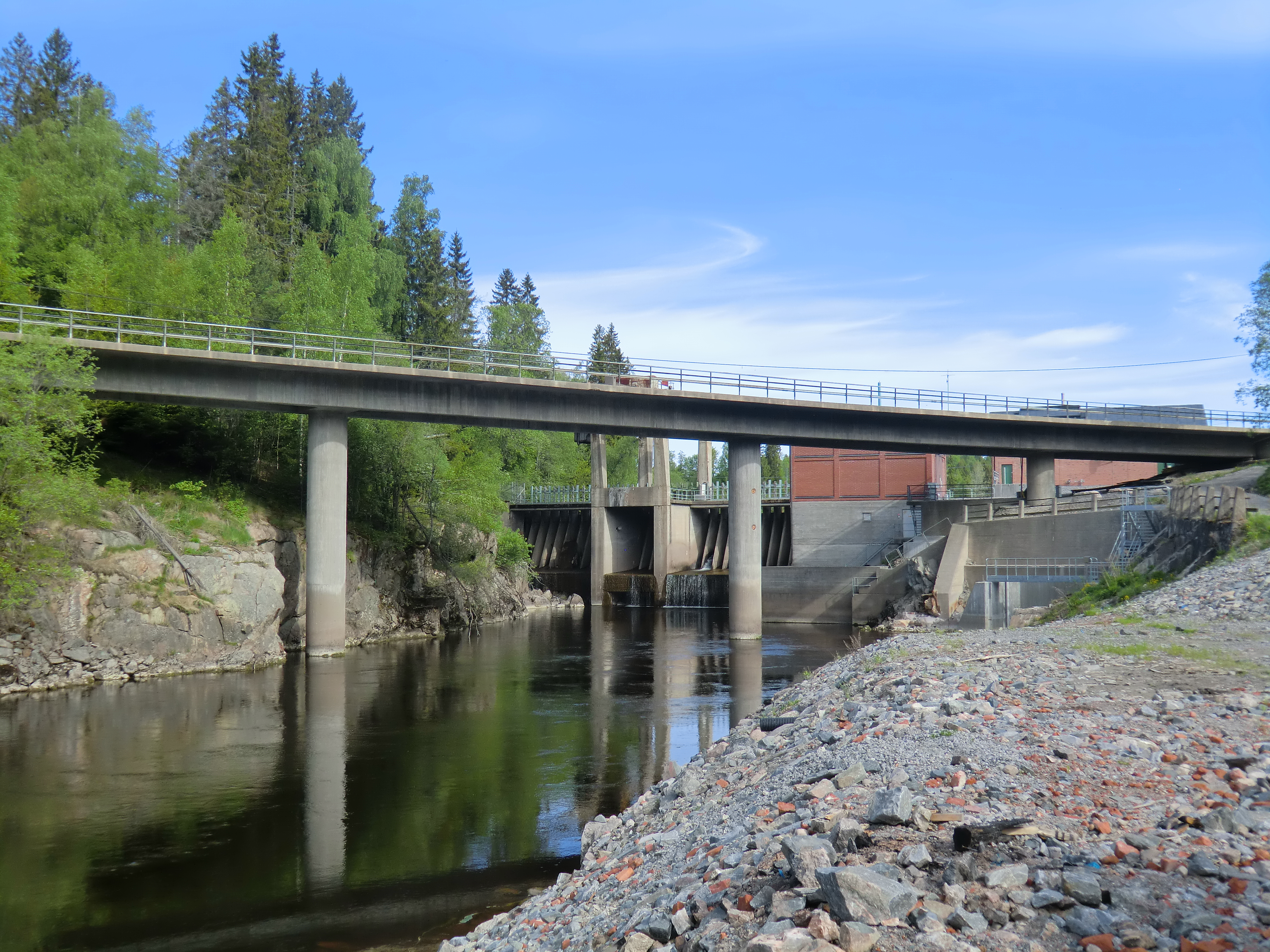 River Norsälven at Frykfors dam.